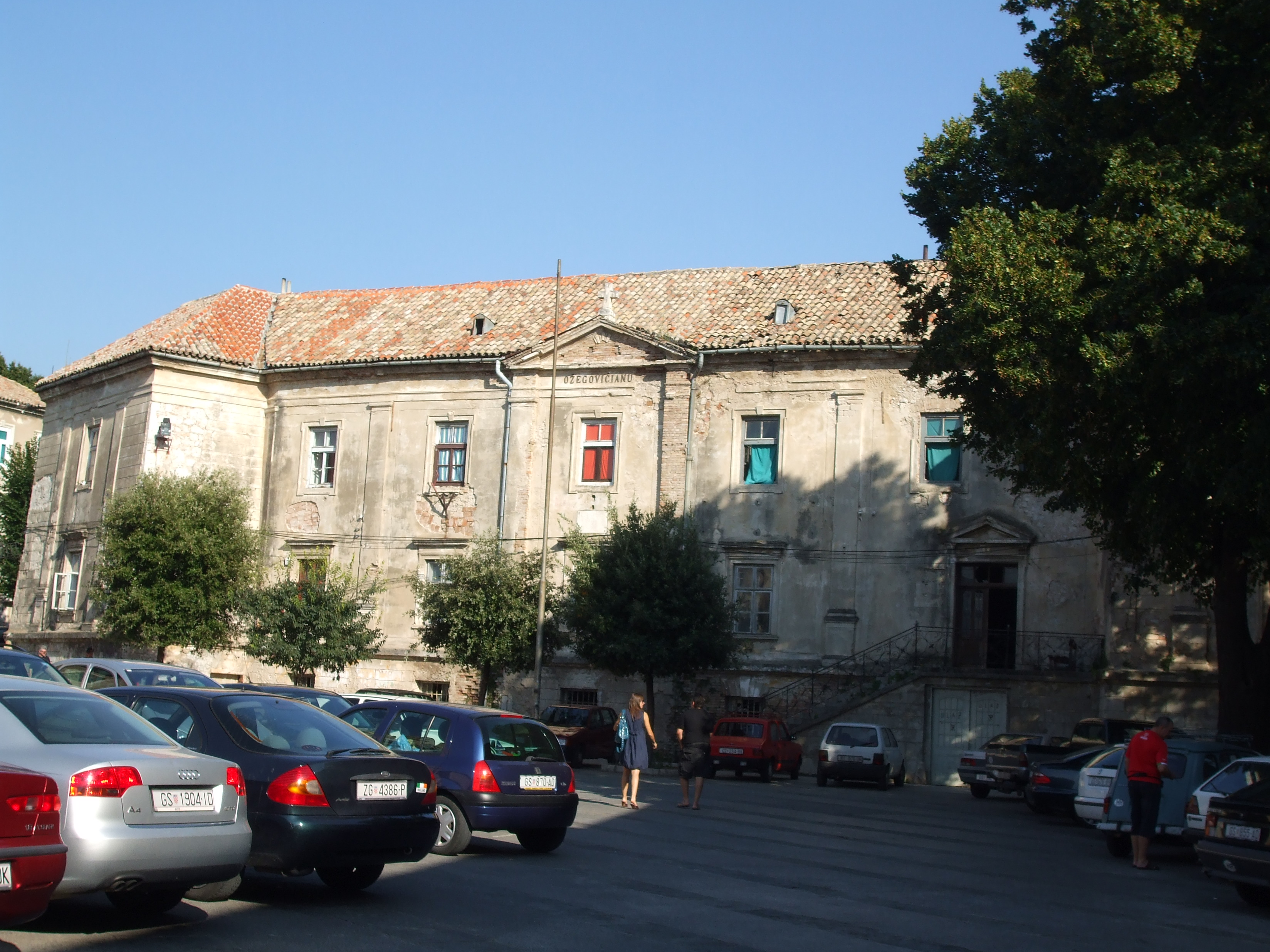 Square in Senj